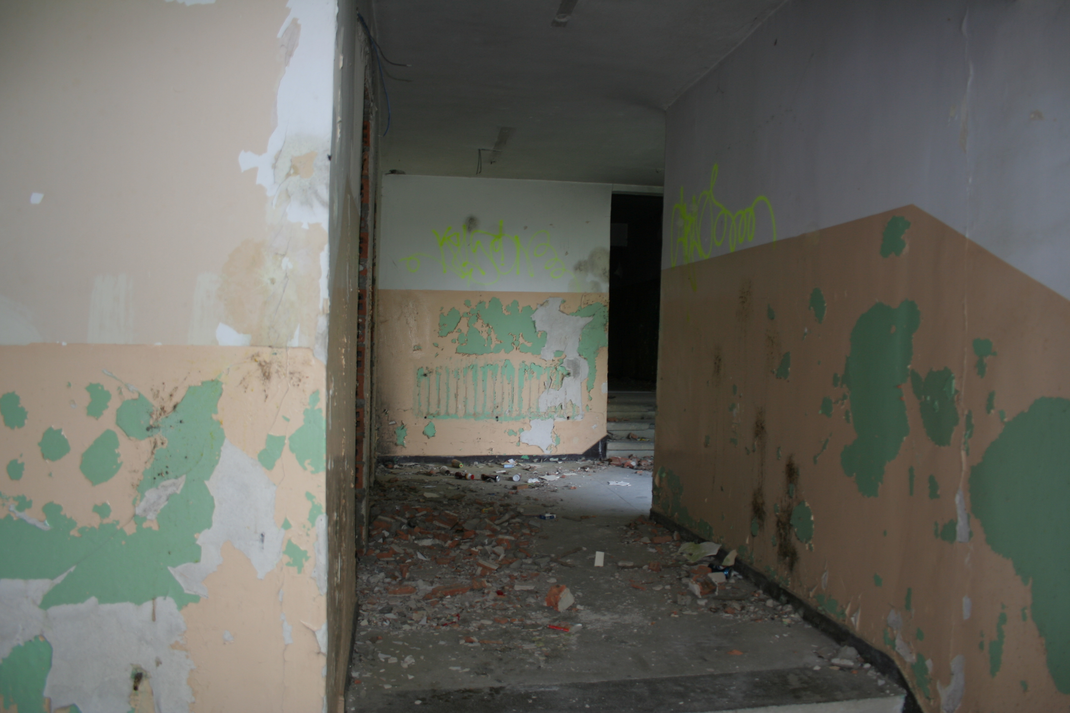 Abandoned hotel in Nadole.